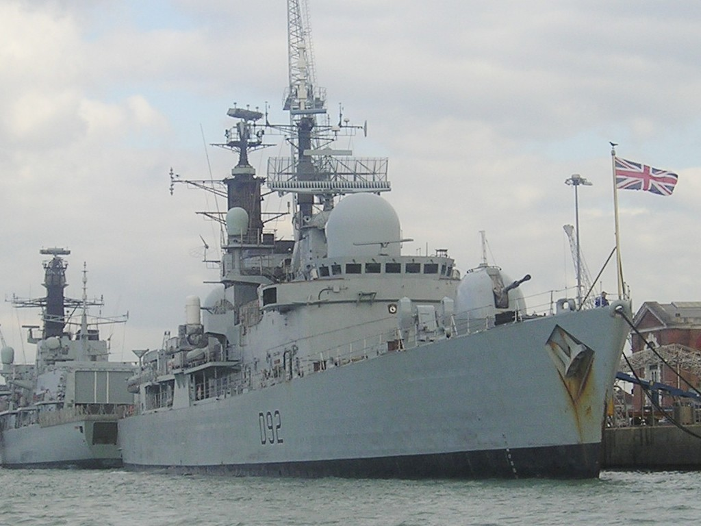 D92 HMS Liverpool Portsmouth April 2004 Author Paul Dashwood